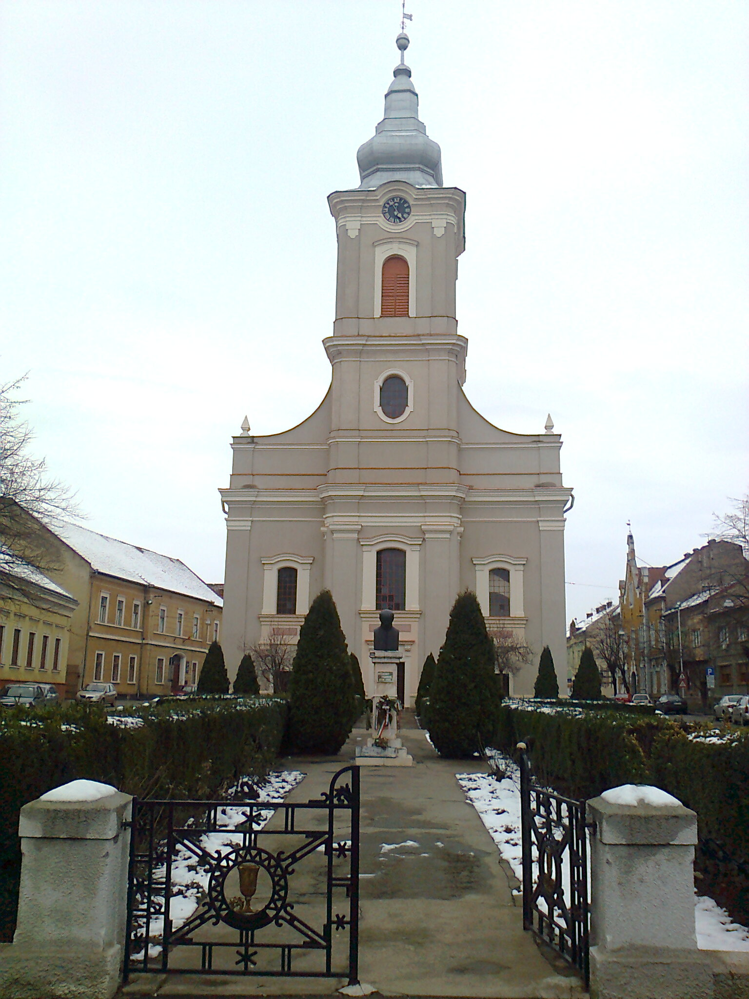 Reformed Chain Church in Satu Mare (Romania)